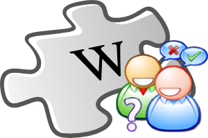 Wiki-Help icon